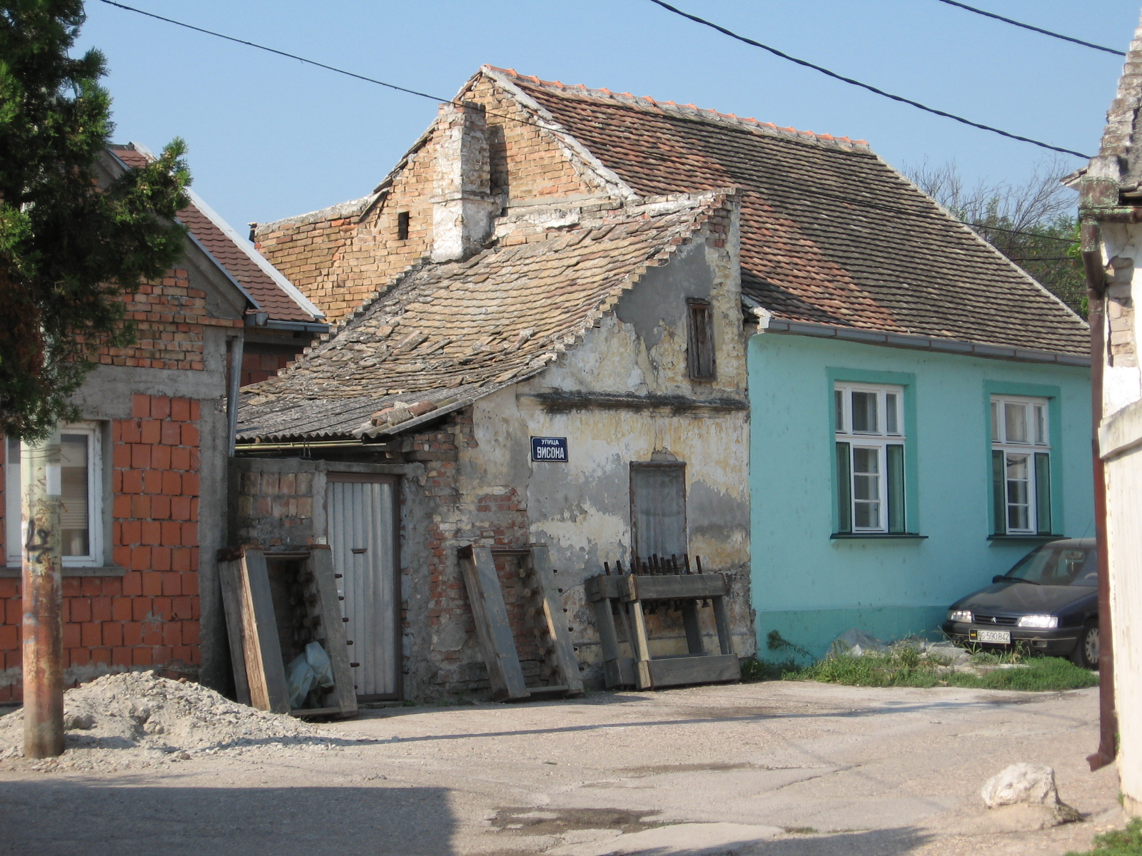 Hold houses in downtown Zemun - Belgrade, Serbia